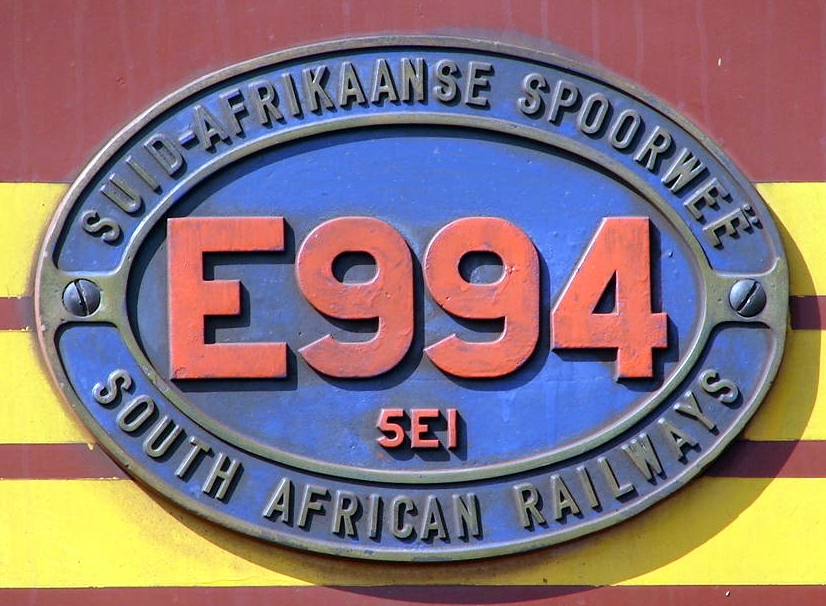 SAR Class 5E1 Series 5 E994 number plateLocation: Ladysmith, Kwa-Zulu Natal